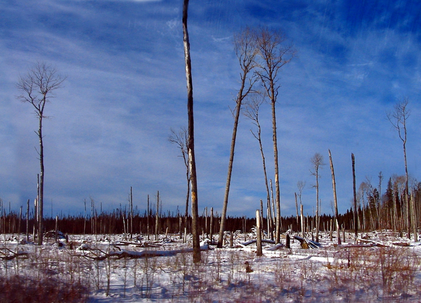 Muskeg taiga with poplars